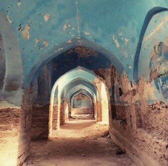 Moshir al-Malek Architecture